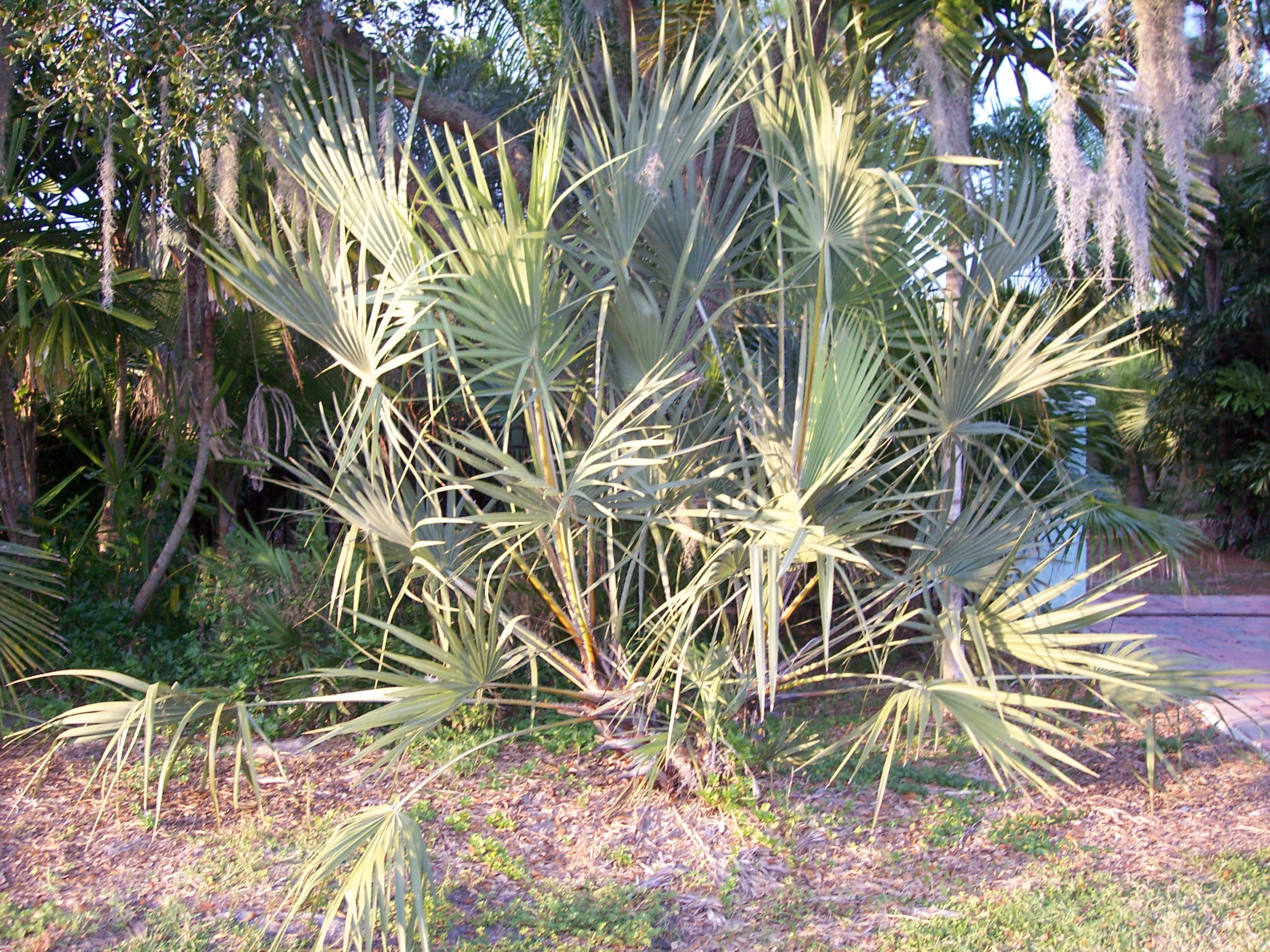 Hyphaene coriacea Tampa, Florida